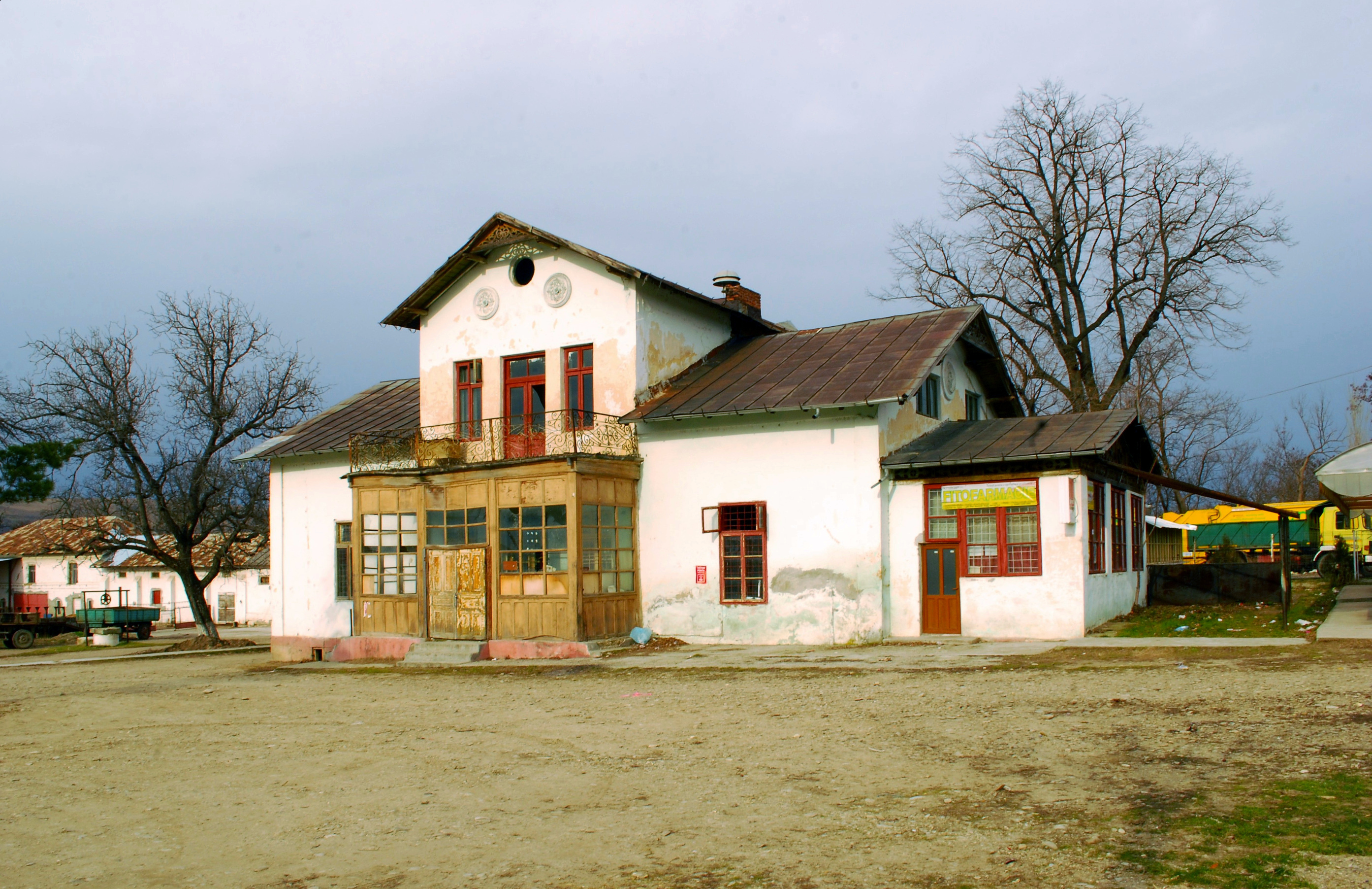 Marghiloman mansion in Fundeni, Zărneşti commune, Buzău County, RomaniaRomână: Conacul Marghiloman din Fundeni, comuna Zărneşti, judeţul Buzău, România